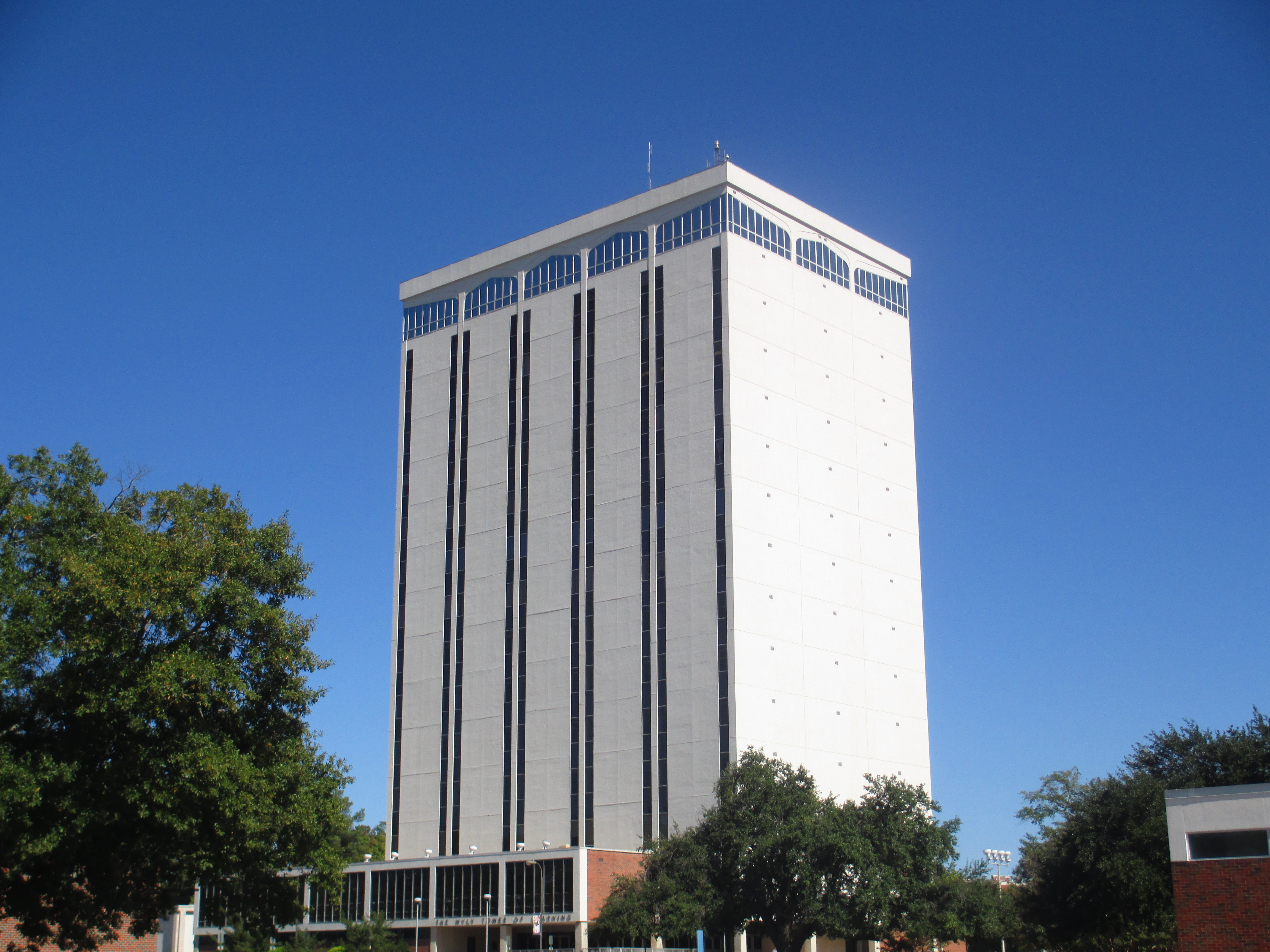 I took photo with Canon camera of Wyly Tower of Learning at Louisiana Tech University in Ruston, LA.